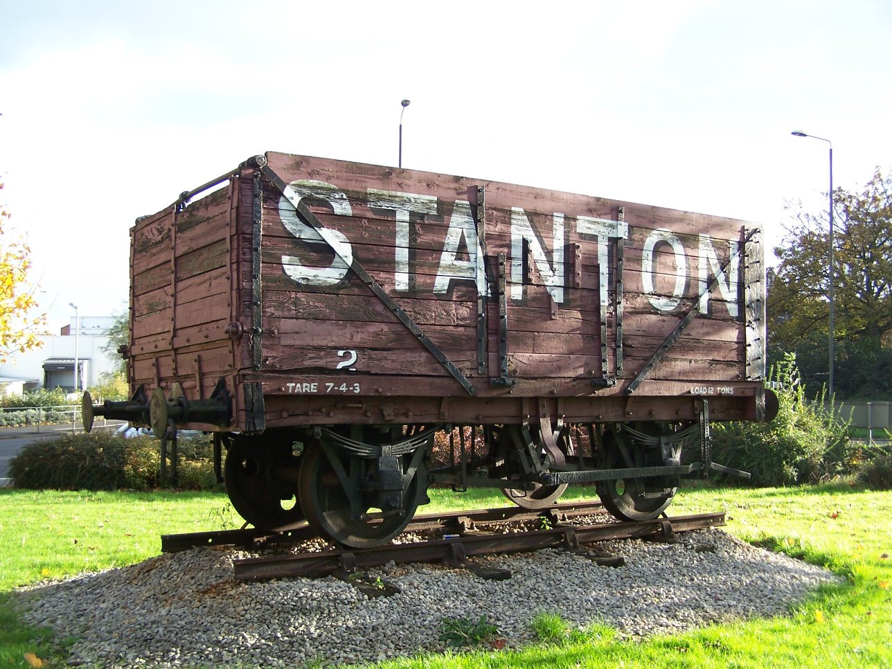 A Stanton Iron Works 12-ton mineral wagon situated on the traffic roundabout at the junction of the A6007 Chalons Way and Rutland Street in Ilkeston, Derbyshire. The roundabout is very near the site of Ilkeston Town railway station.